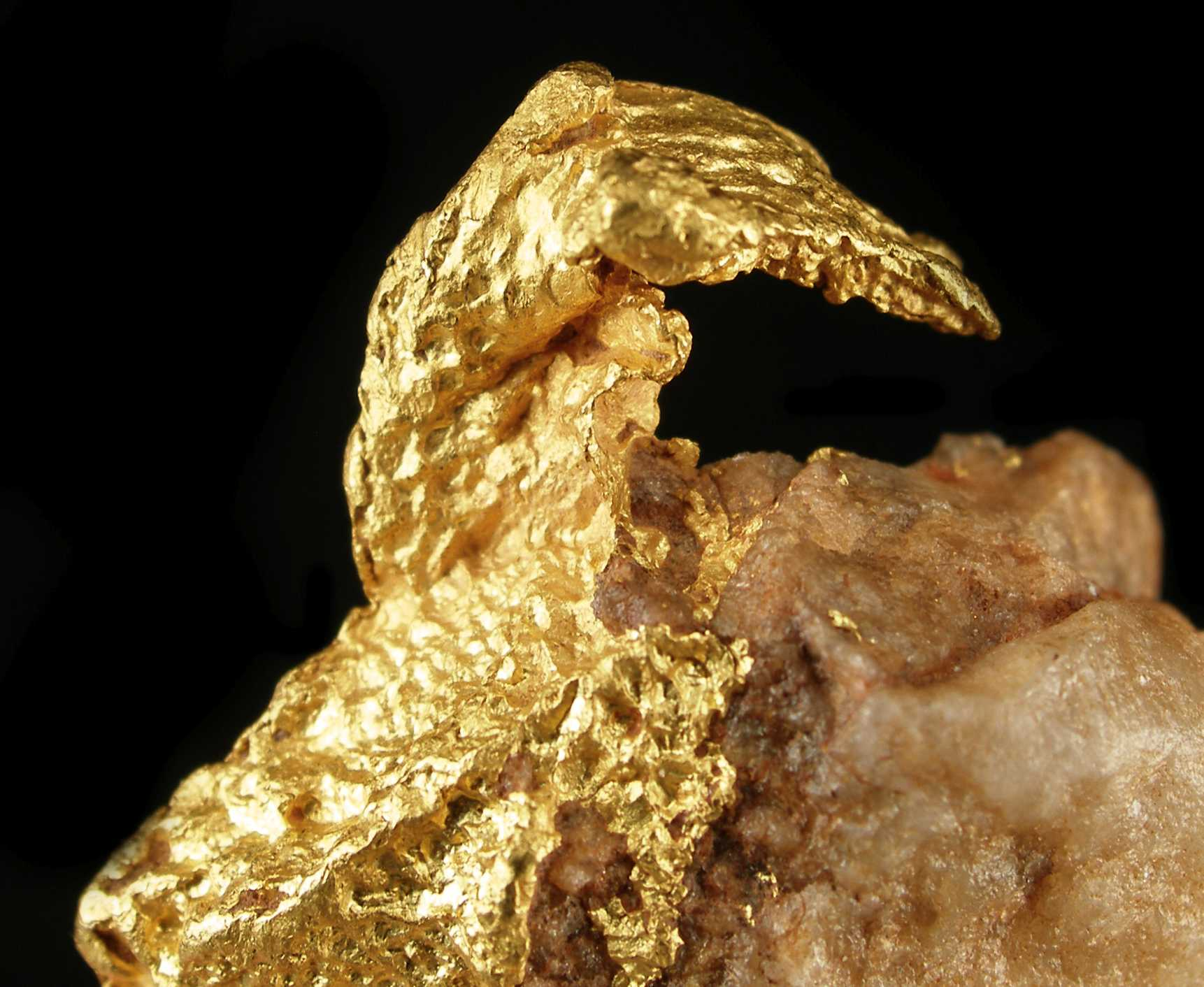 Gold Locality: Victoria Gold Mine, Montacute, South Mt Lofty Ranges, Mt Lofty Ranges, South Australia, Australia (Locality at ) Size: miniature, 4.9 x 3.1 x 2.2 cm Gold A dramatic specimen of thick, wide vein gold in the shape of a swan perched atop matrix. The color and luster is very bright and with a brassy patina free from harsh chemical cleaning. It has an unusual look and comes from an unusual locality, according to my source in Australia from whom I obtained it (Rob Sielecki, may years ago). The gold sits very attractively on just the right amount of matrix and is really 3-dimensional. Overall, a superb miniature and quite a rare matrix specimen in that the gold is on the rock as opposed to intertwined with it as usual. Weighs 51 grams, of which most of that is gold.